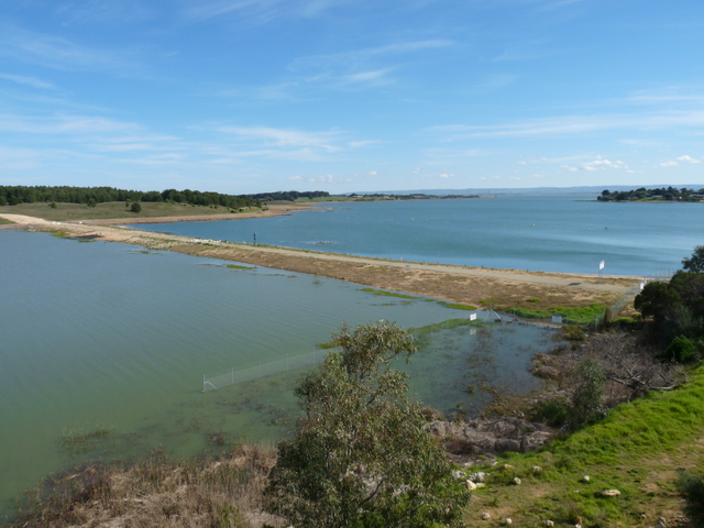 The earthen dam named a regulator, at Clayton, South Australia on Lake Alexandrina, that was designed to stop the flow of water from the smaller Goolwa section of the lake to the much larger main area of the lake. Inflows of water from upstream had the opposite effect, and it was removed in spring, 2010. The Goolwa section is on the right